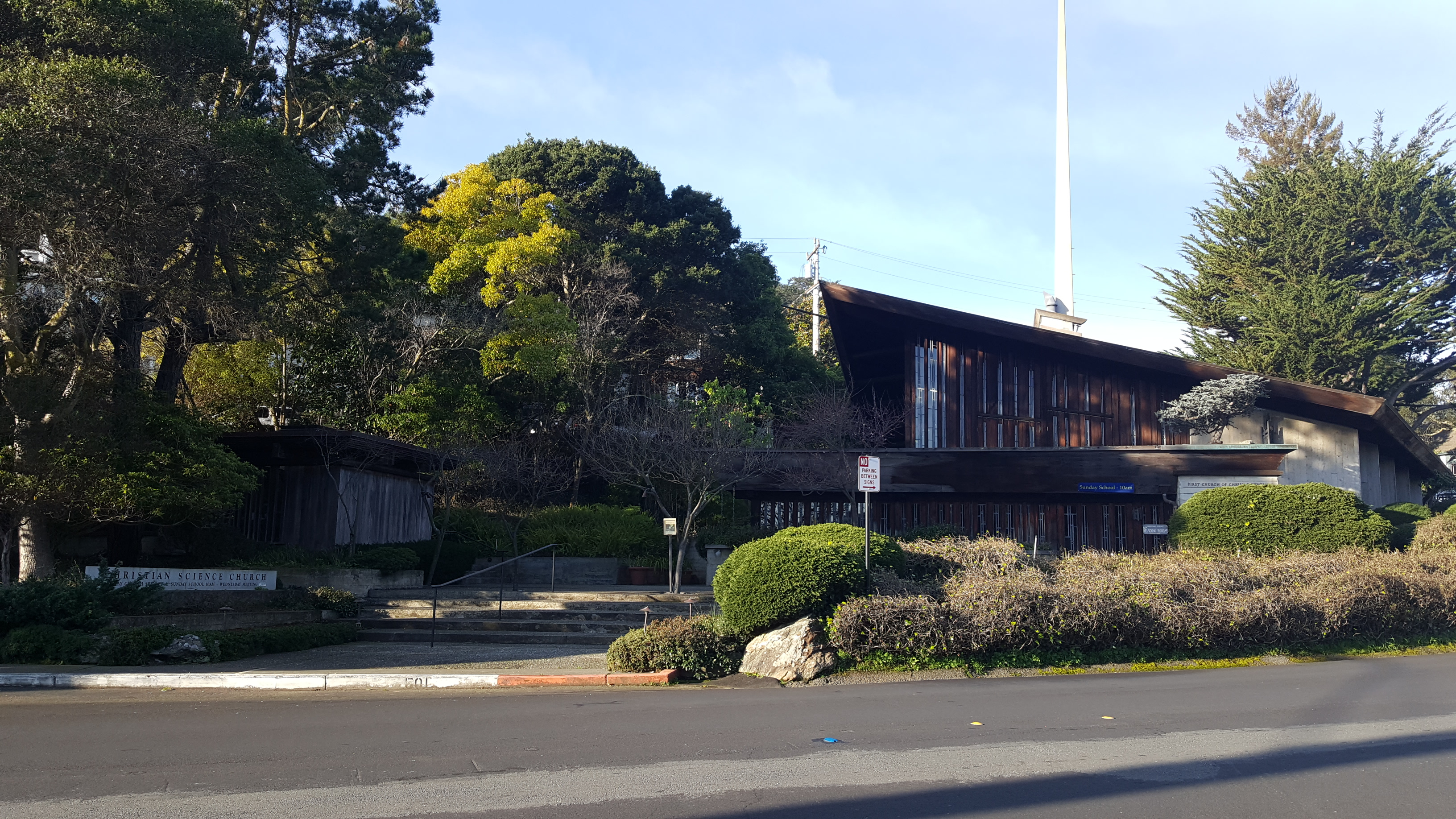 Charles Warren Callister building, Belvedere, California, 1953